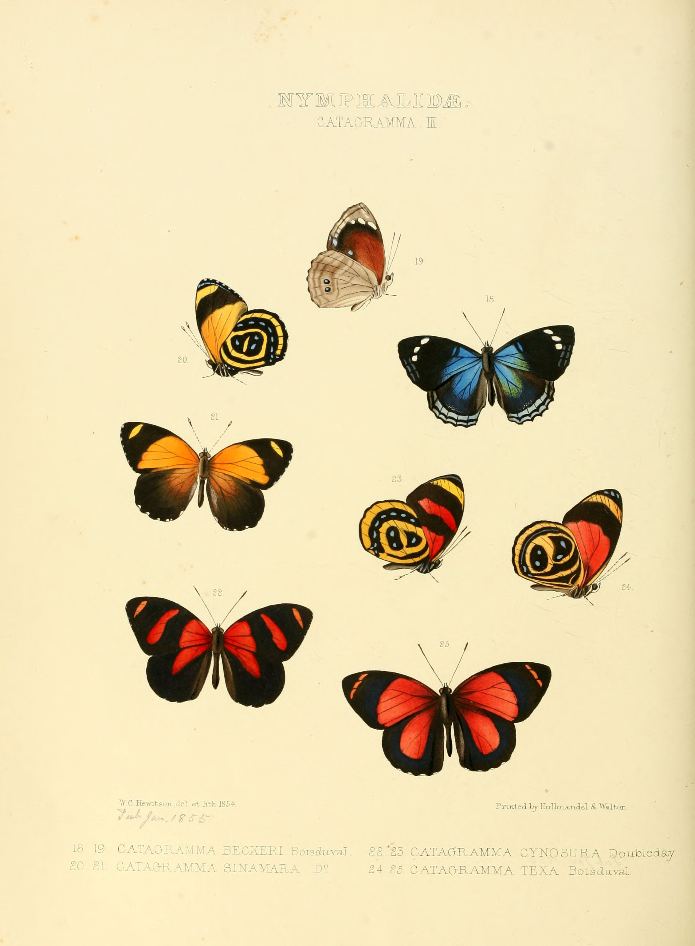 Plate: Catagramma III Catagramma beckeri. Figs. 18, 19. Accepted as Doxocopa zunilda (Godart, 1824). Catagramma sinamara. Figs. 20, 21. Accepted as Callicore astarte (Cramer, 1779). Catagramma cynosura. Figs. 22, 23. Accepted as Callicore cynosura (Doubleday, 1847). Catagramma texa. Figs. 24, 25. Accepted as Callicore texa (Hewitson, 1855).